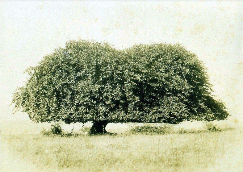 The "Tilly-Buche" (1739-1994) near Raden, Suentel in Lower Saxony (Germany). A very famous and well-known Dwarf-Beech (Fagus sylvatica 'Tortuosa'). Girth of trunk: 540 cm, Diameter of treetop: 24 m, Hight: 18 m. The twigs were bitten off by sheep.